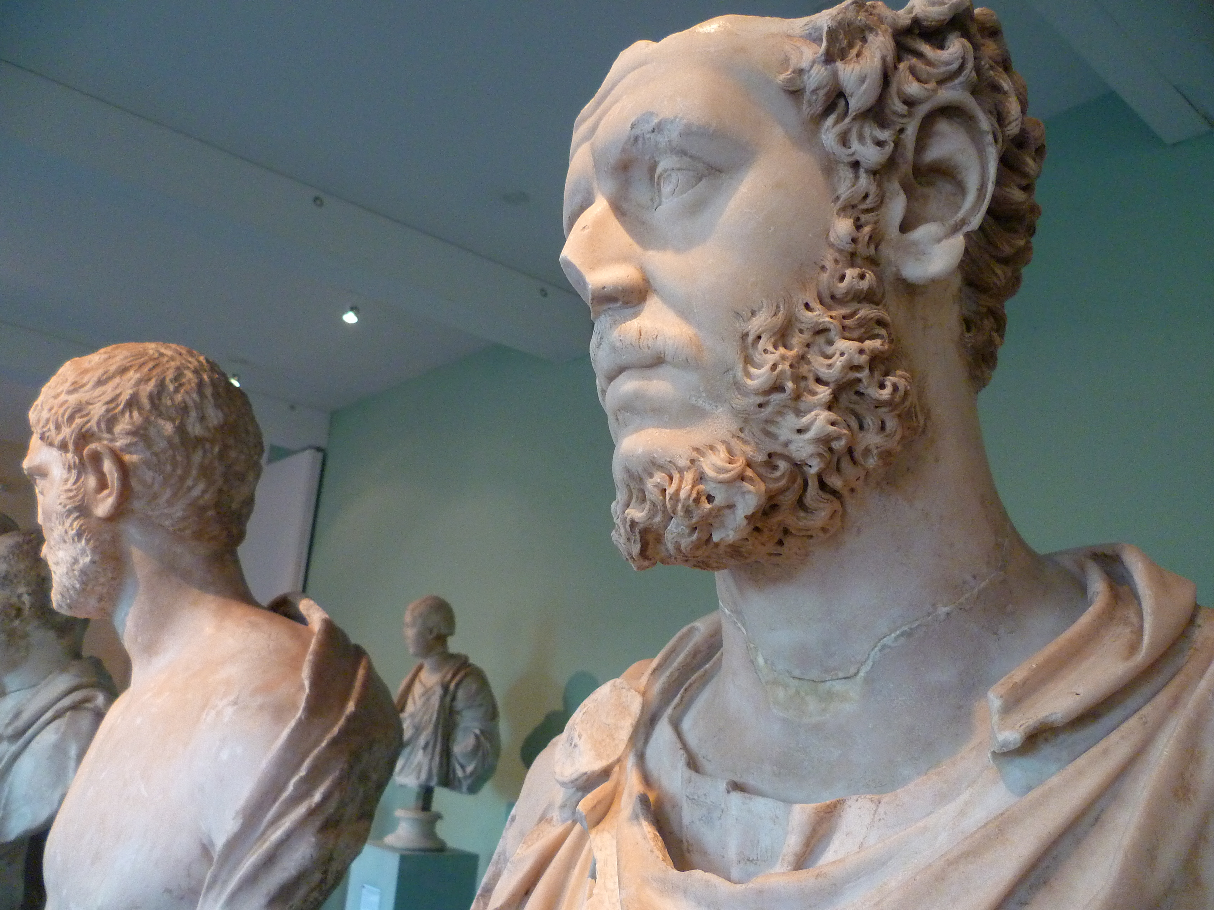 Buste d'un militaire romain inconnu au Musée Saint-Raymond de Toulouse. Autrefois attribué à Macrin. Date de la sculpture : fin du IIe - début du IIIe siècle.Origine : Villa romaine de Chiragan à Martres-Tolosane, découvert lors des fouilles de 1826. Numéro d'inventaire : Inv. 30120.